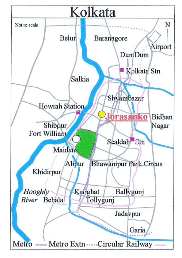 Own map